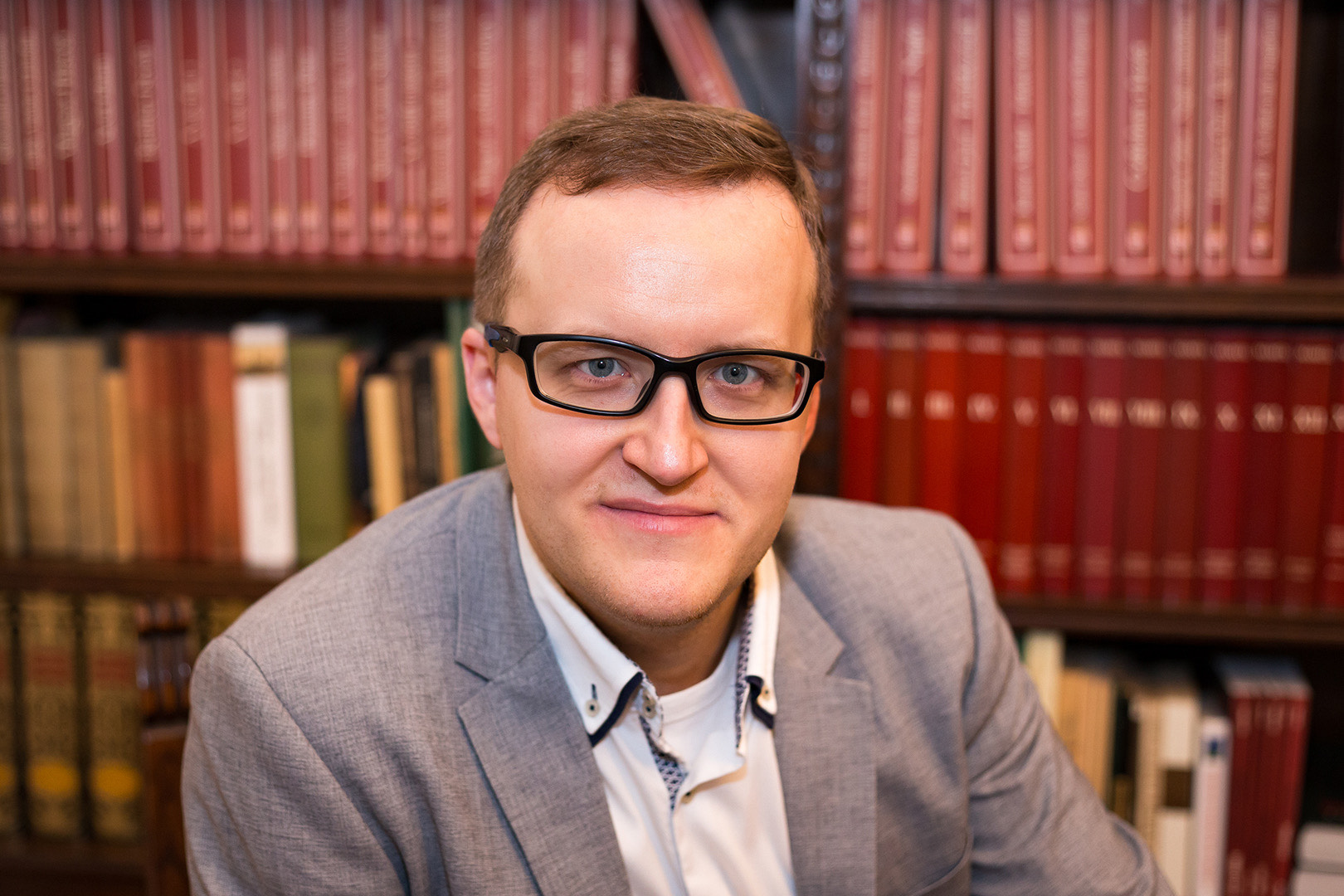 Dávid Rózsa (1982) librarian, director general of the Hungarian Central Statistical Office Library